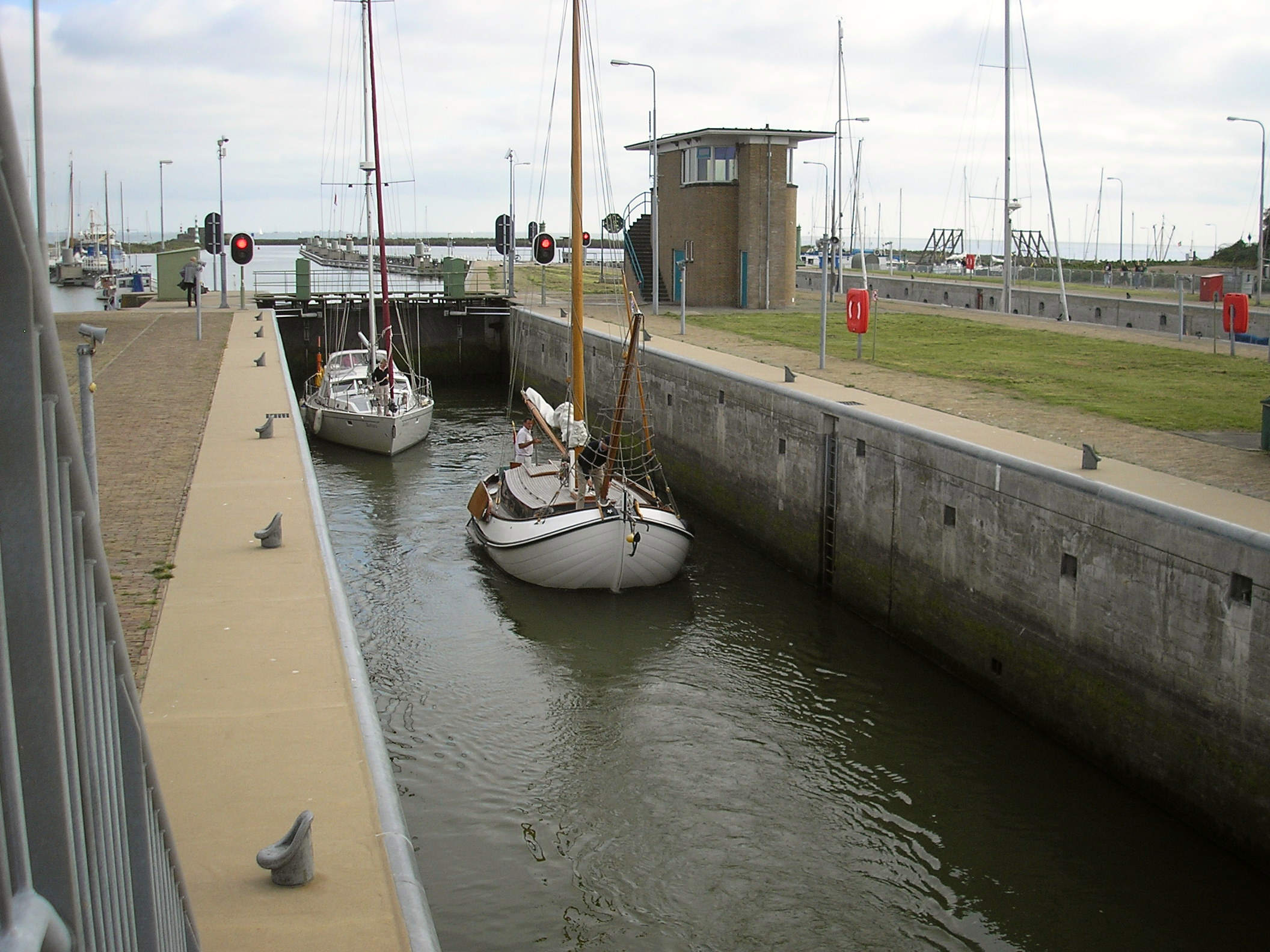 Kornwerderzand, Netherlands - Lock